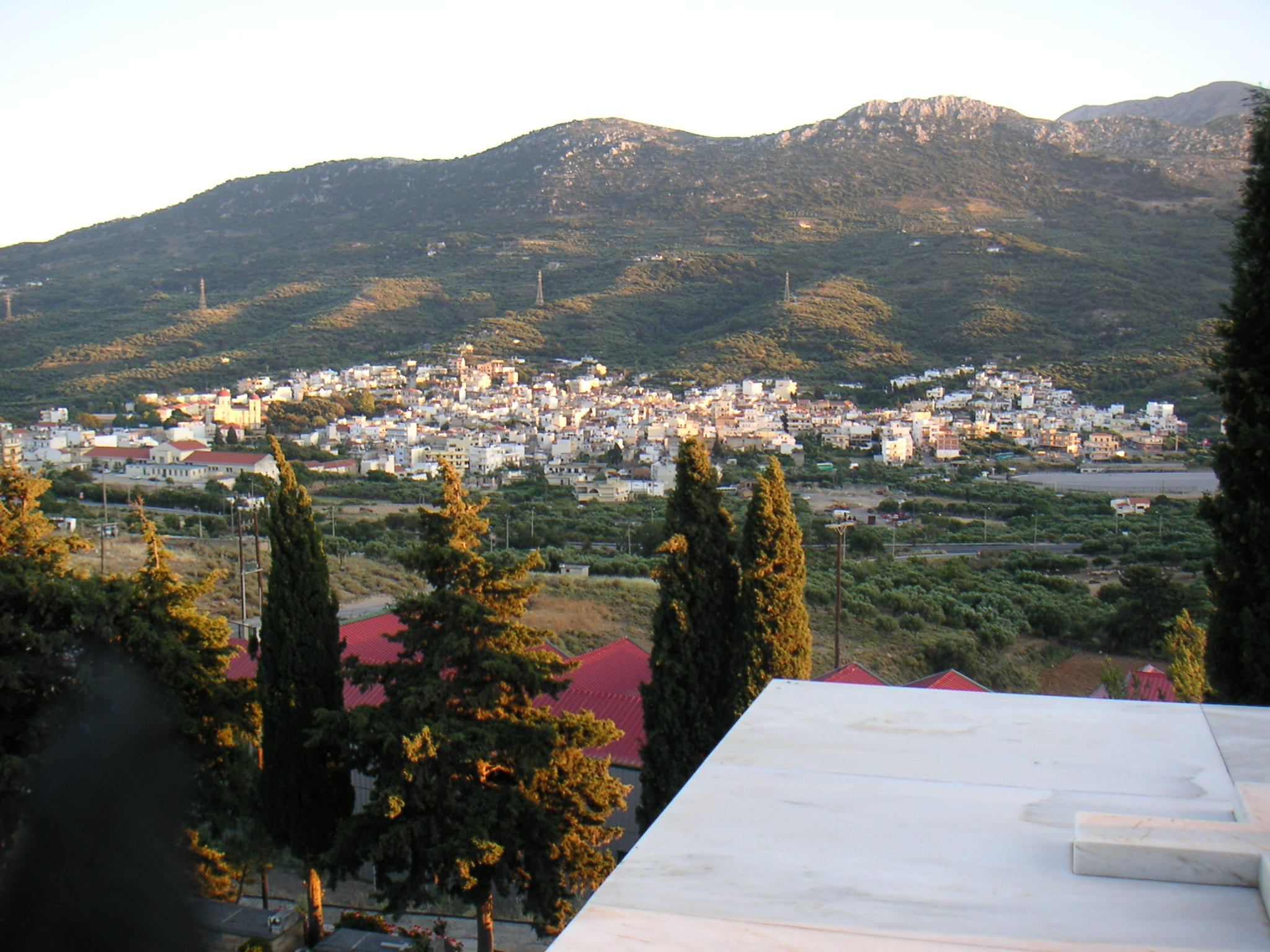 Photo of the town of Neapoli, Crete, Greece taken from its graveyard